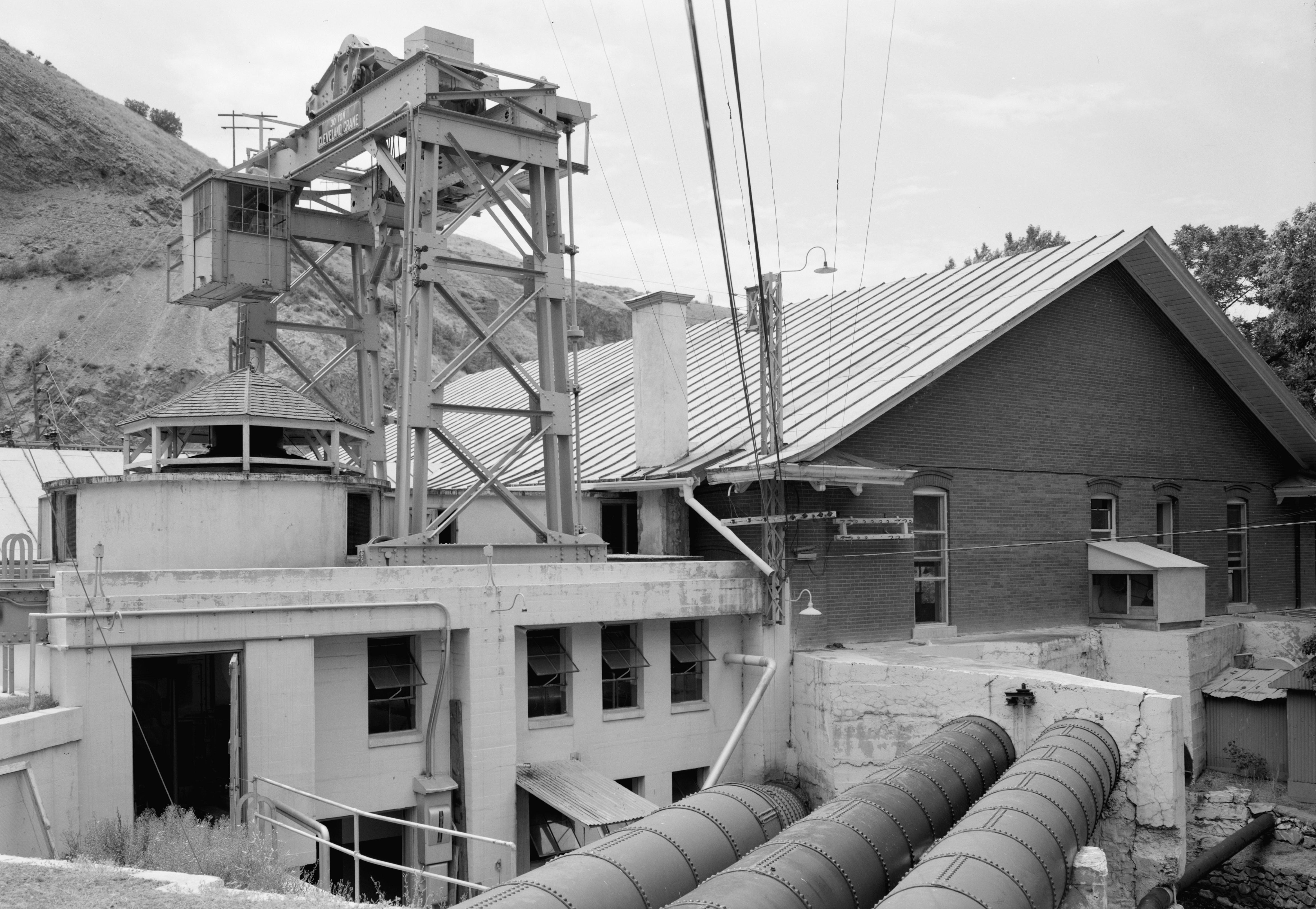 Water race and building at the Olmsted Station Powerhouse, located along U.S. Route 189 approximately 5 miles north of Provo in Utah County, Utah, United States. Built in 1903, it is listed on the National Register of Historic Places.